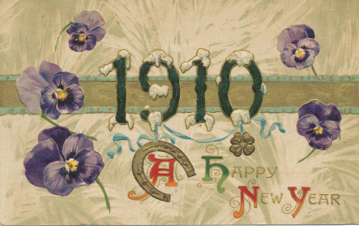 Postcard for New Year's Day, 1910, mailed December of previous year